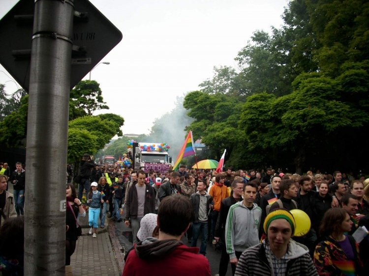 Parada Rownosci in Warsaw on June 13, 2009